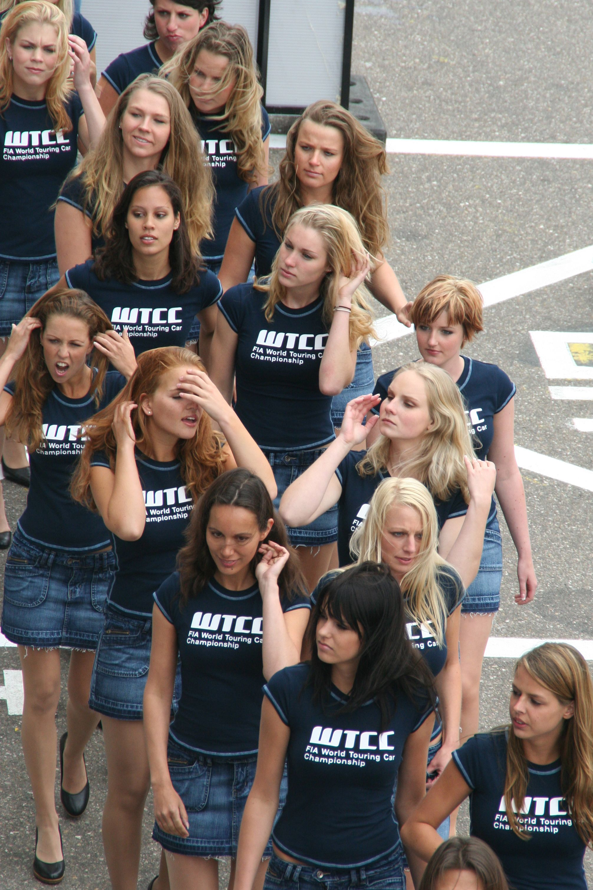 umbrellagirls at the wtcc, Zandvoort The Netherlands